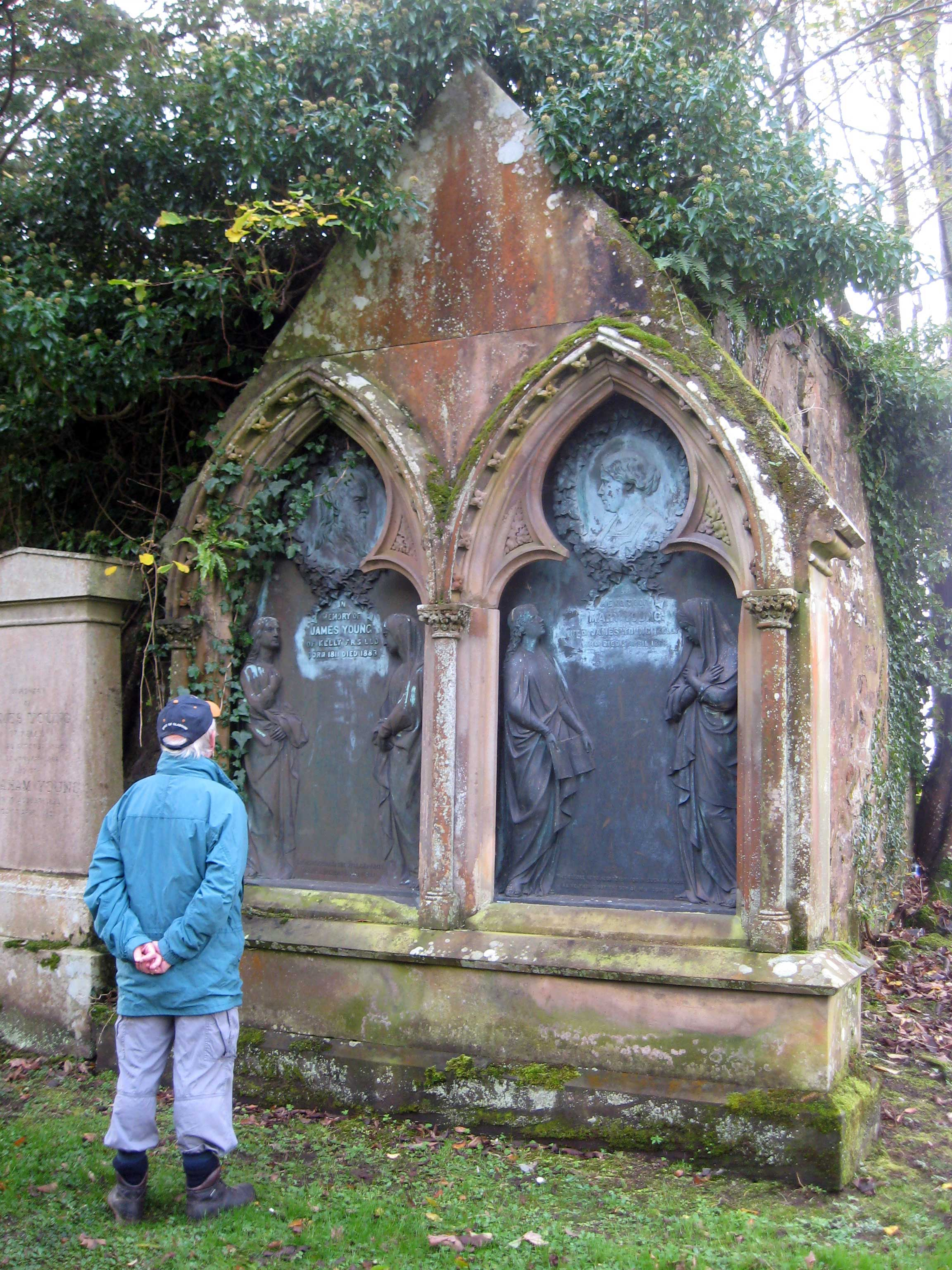 Tombstone of James Young (Scottish chemist) ("Paraffin Young") and his wife, in Inverkip churchyard at the north end of the mausoleum of the Shaw-Stewart Baronets